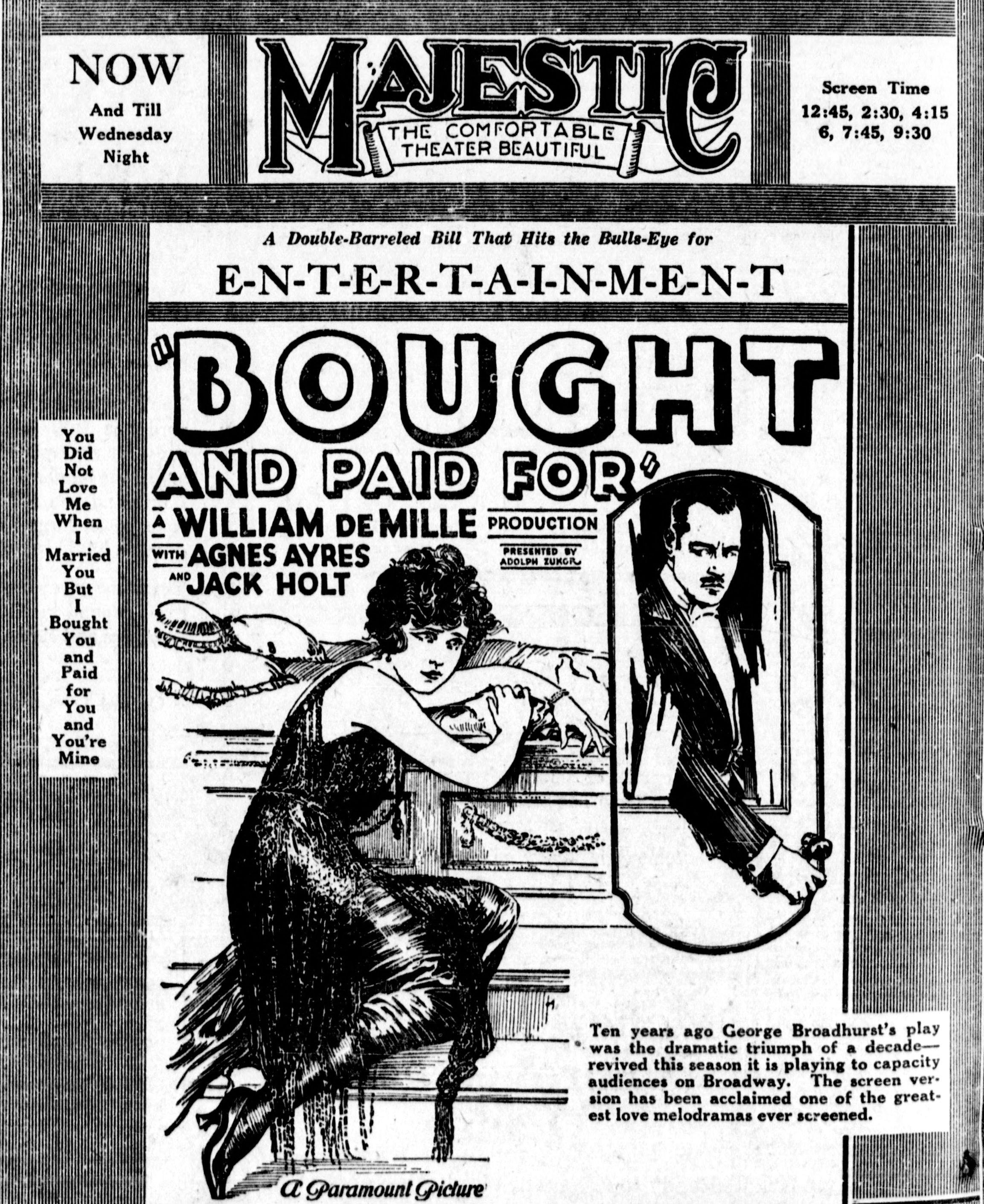 Bought and Paid For is a 1922 silent film drama produced by Famous Players-Lasky and distributed by Paramount Pictures. This is a newspaper advertisement for the film.